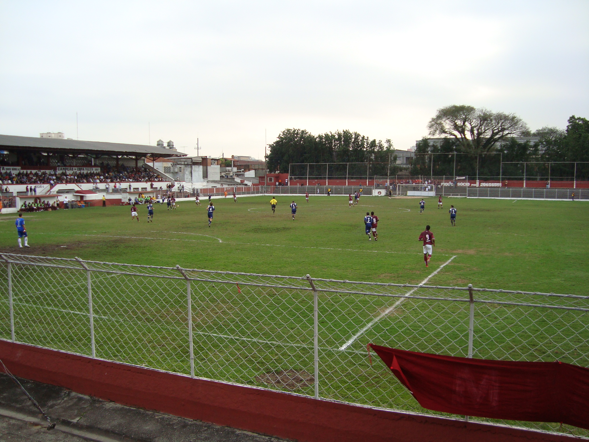 Rua Javari stadium, during the match between CA Juventus and São José EC. This match was won by the home team, with a 2x0 score.